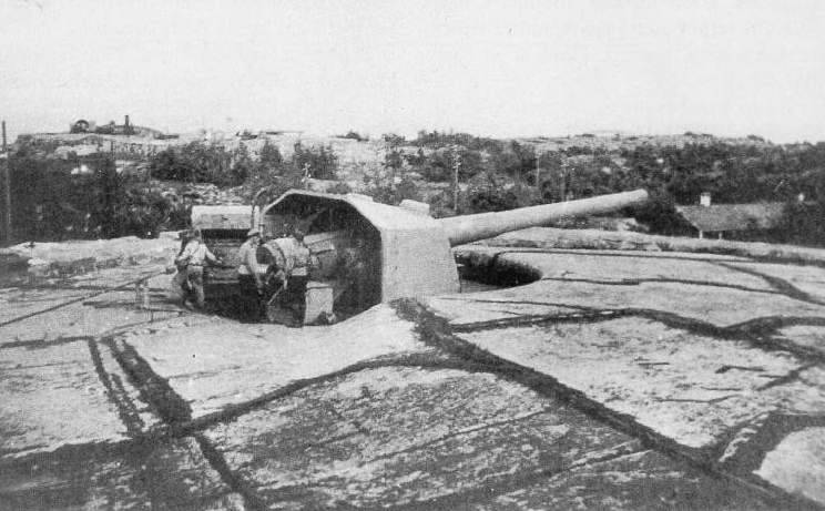 The Finnish 234 mm Costal artillery in island of Russarö during a military exercise before the Winter War.